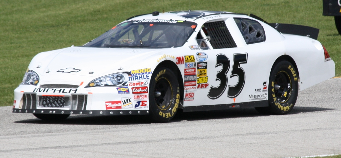 The NASCAR racecar for driver Tony Ave at the 2010 Bucyrus 200 at Road America.